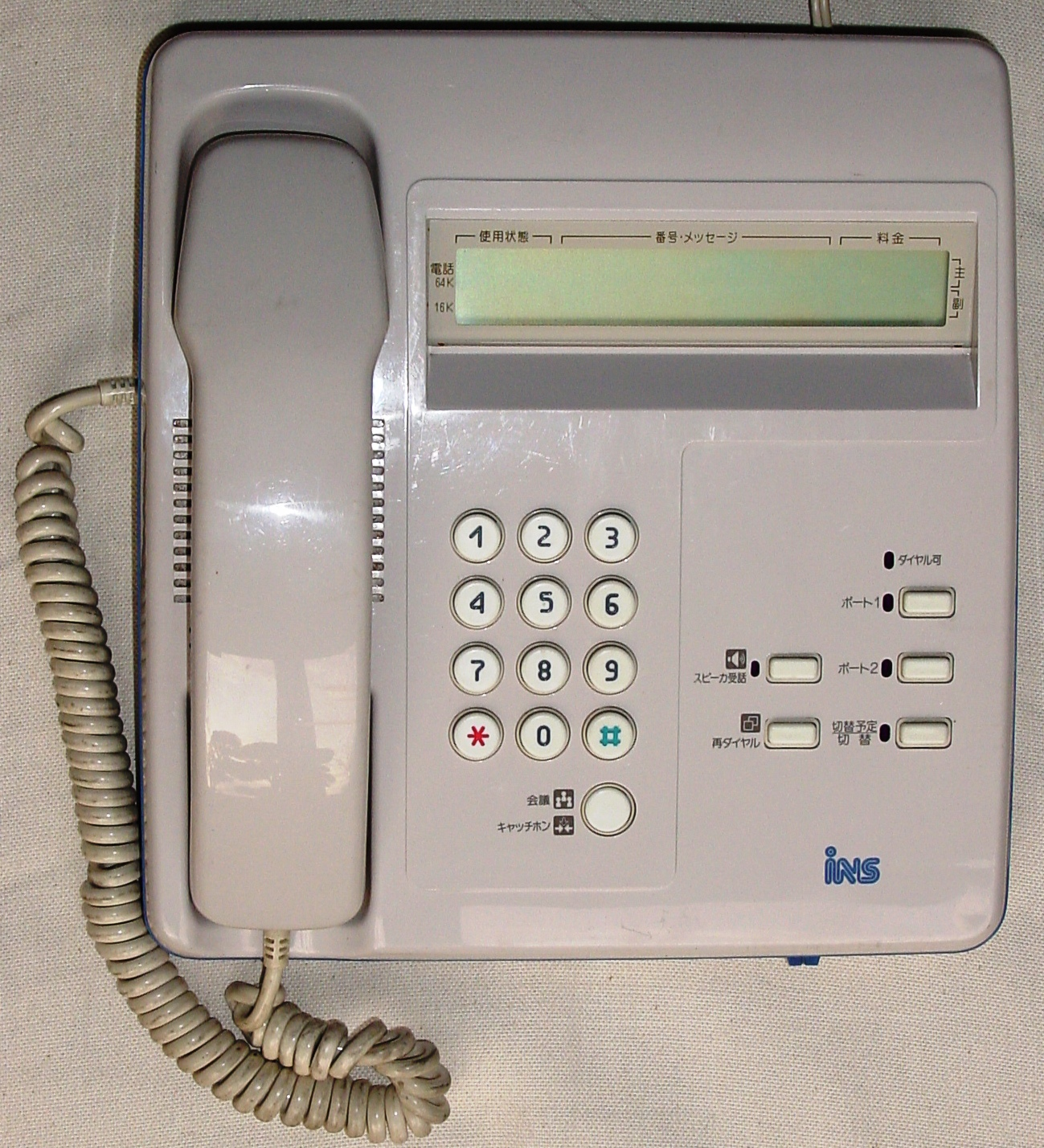 1984年にNTTが三鷹市・武蔵野市で現在のISDNとは互換性のないYインターフェースでの実用化試験が行われた際に使用された電話機です。型番は、DM1021形電話機 特仕7988号2版。電話機には、プッシュ式ダイヤルと同じダイヤラーキーパッドと共に各種機能ボタンとＬＣＤパネルがあります。背面には開閉する蓋があり、蓋の中にはDSUへつなぐ為のRJ-11モジュラージャックが2つ、宅内機器へつなぐ為のRJ-11モジュラージャックが2つの合計4つのモジュラージャックが配置されています。電話機を動作させる為にはコンセントより交流１００Ｖを給電する必要があります。この電話機の撮影は、コレクションとしてこの電話機を保有している中山卓也が行いました。 In 1984, NTT was used this phone for the experiment of ISDN phone system in Mitaka and Musashino Cities in Japan. The model# is DM1021 style phone, special specification# 7988 revision 2 (DM1021形電話機 特仕7988号2版). It was worked with "Y" interfaced ISDN system, not compatible with current "I" interfaced ISDN system. The face of this phone have ordinary 12 dial push buttons, few function push switches and one large LCD panel. Also, the back of the phone have an open lid. Behind the lid have four RJ-11 modular jacks for connect with DSU equipment and home peripherals equipments. 100V AC power to function the phone, however, the experiment was used with different interface from the current ISDN telephone system. This phone was photographed by the collection owner of Takuya Nakayama.